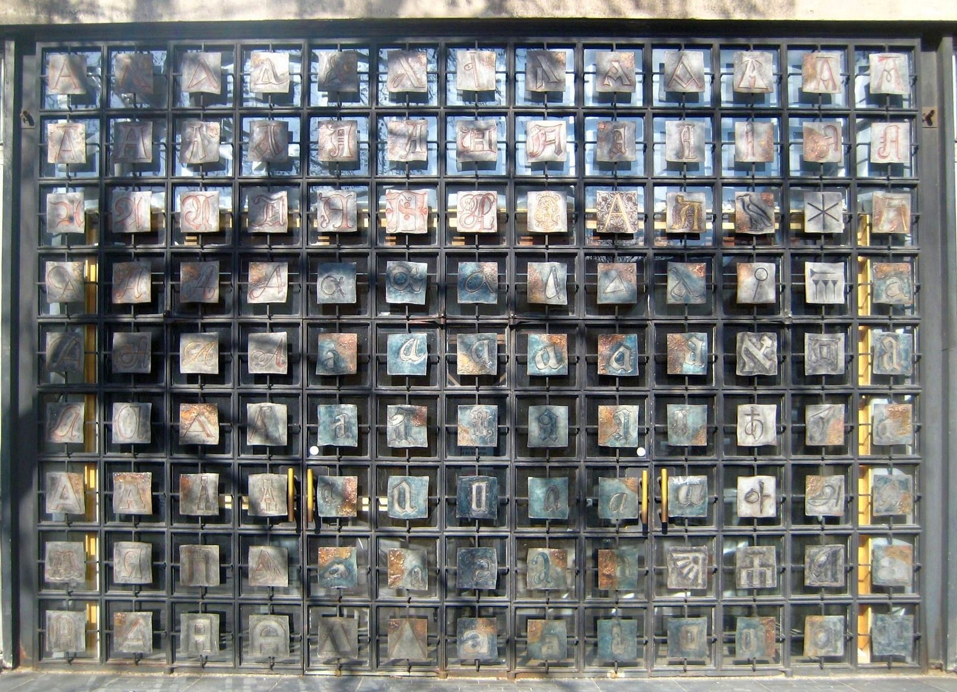 The portal of the Berlin City Library at Breite Straße 32-34 in Berlin-Mitte. It shows steel plates with 117 variations of the letter "A", created by Fritz Kühn in 1965.